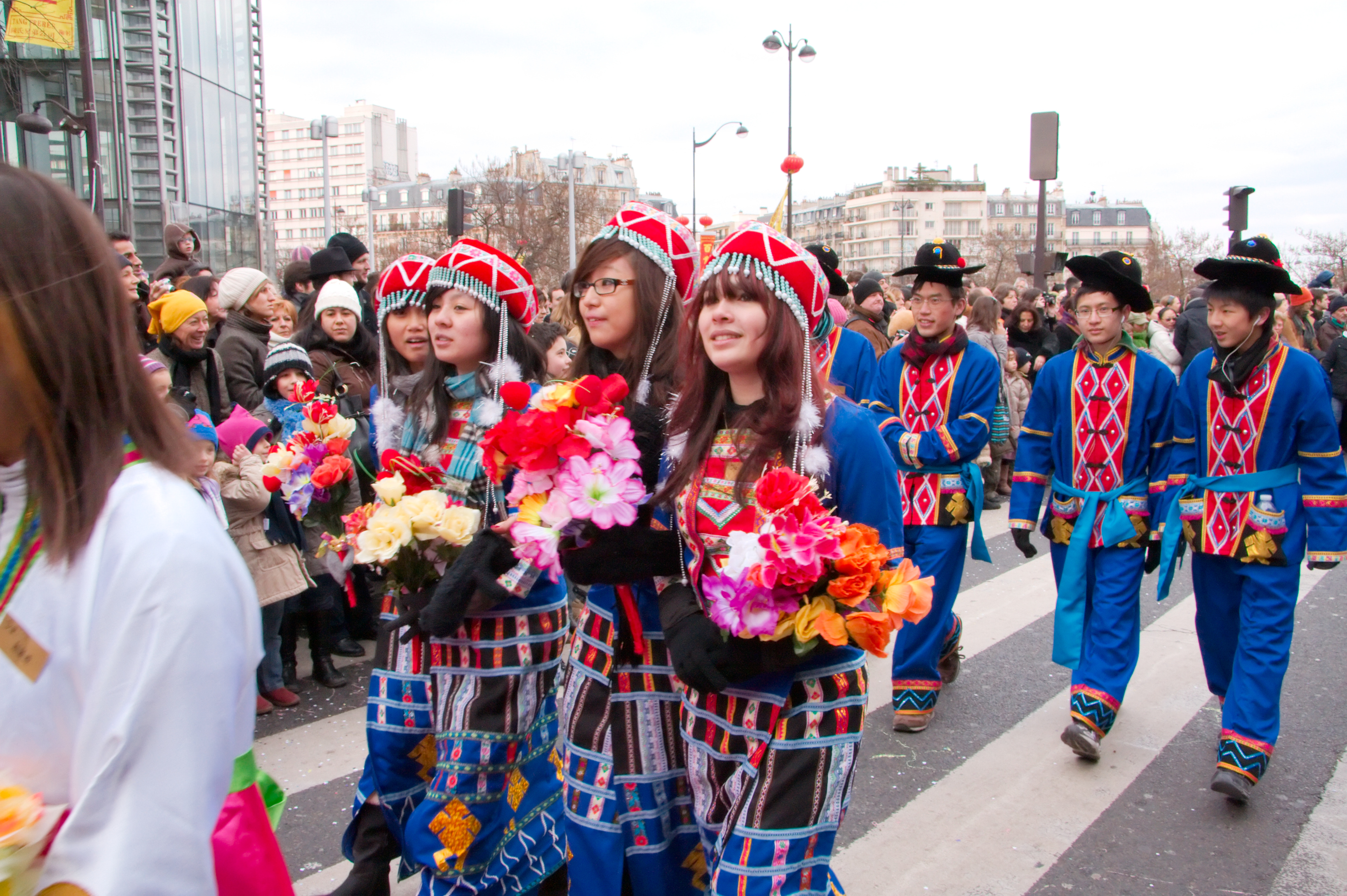 Chinese New Year, which took place in the 13th arrondissement of Paris (France).